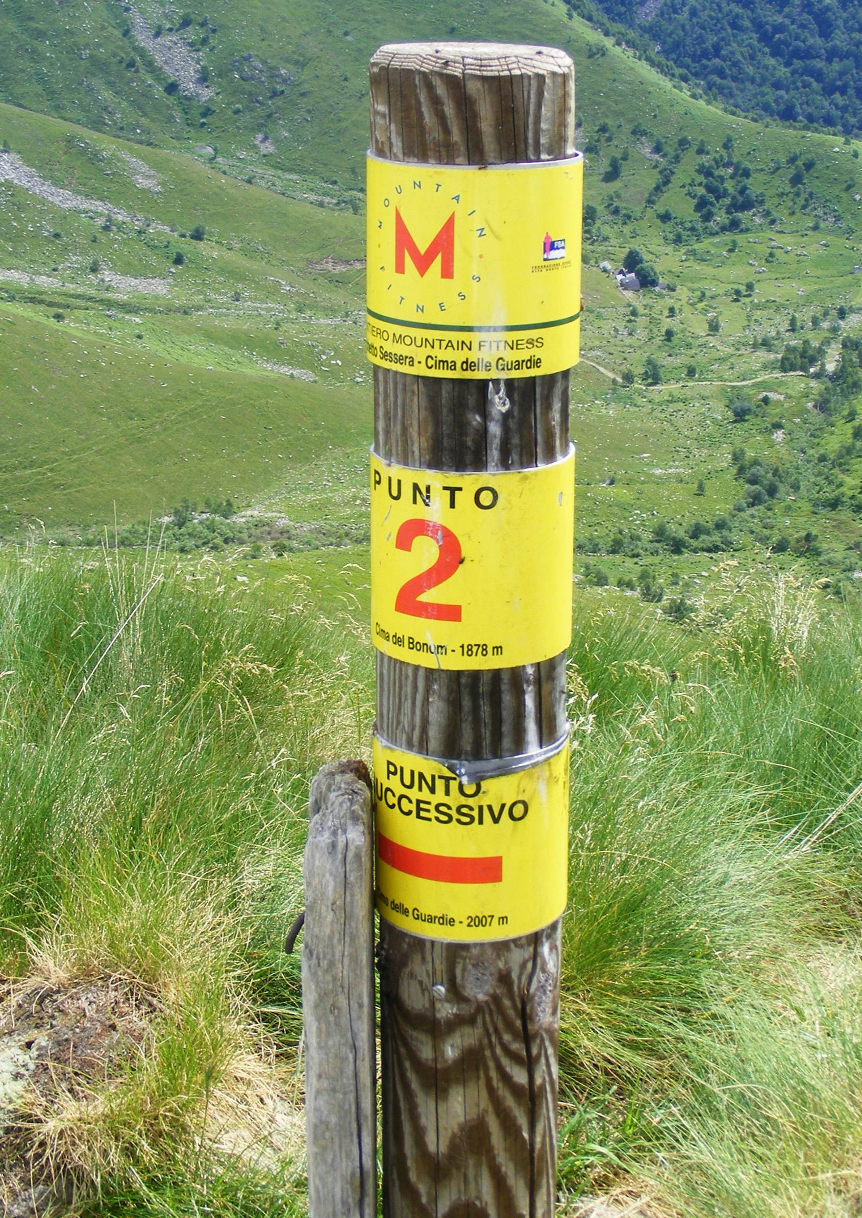 Cima del Bonom (BI, Italy): the Mountain Fitness foothpath's pole on the top.